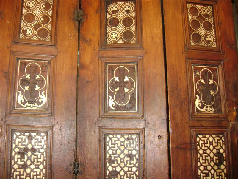 Door of Prophecies at the Christian Syrian Monastery in Egypt